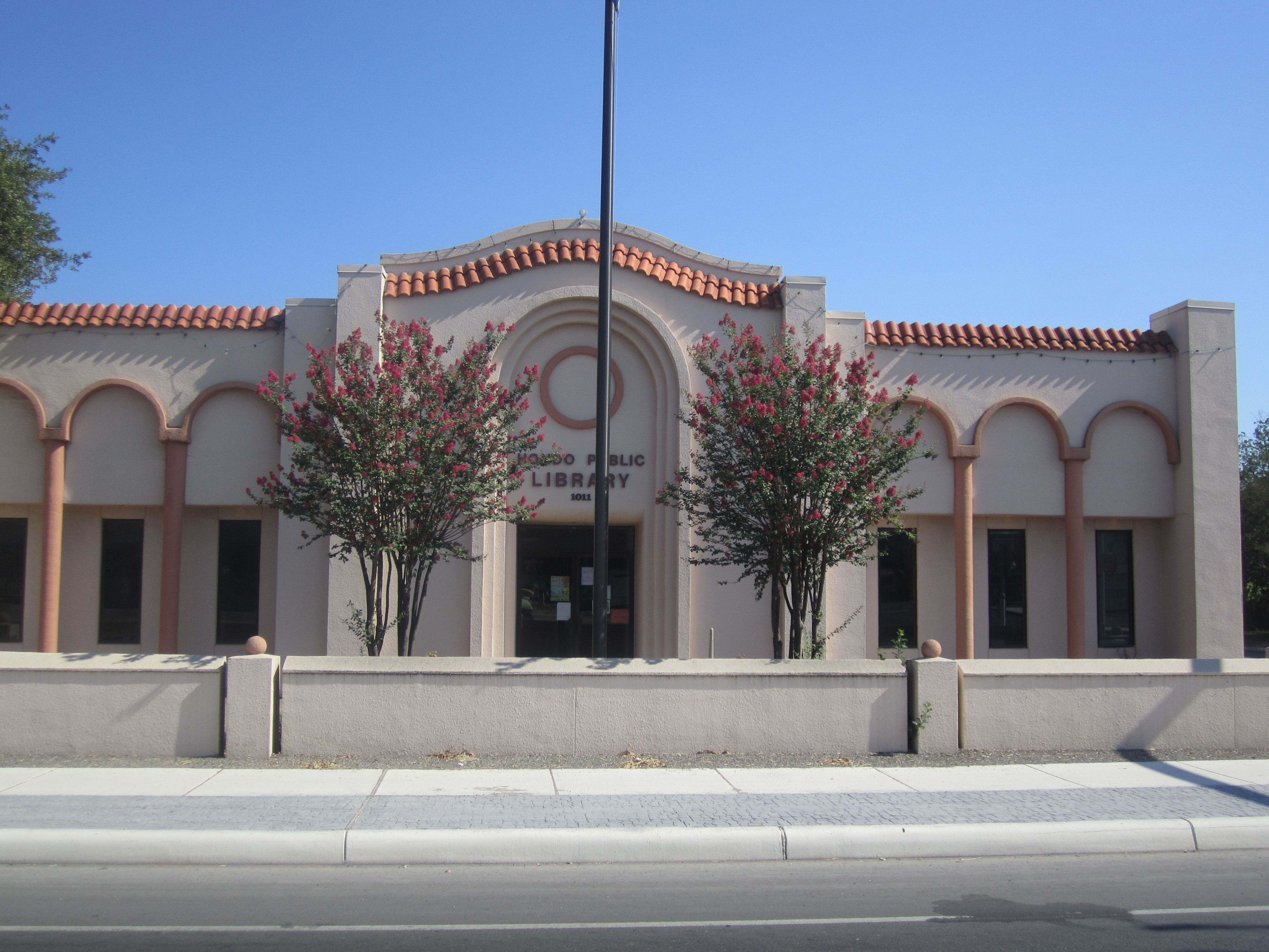 I took photo with Canon camera in Hondo, TX, of the public library.